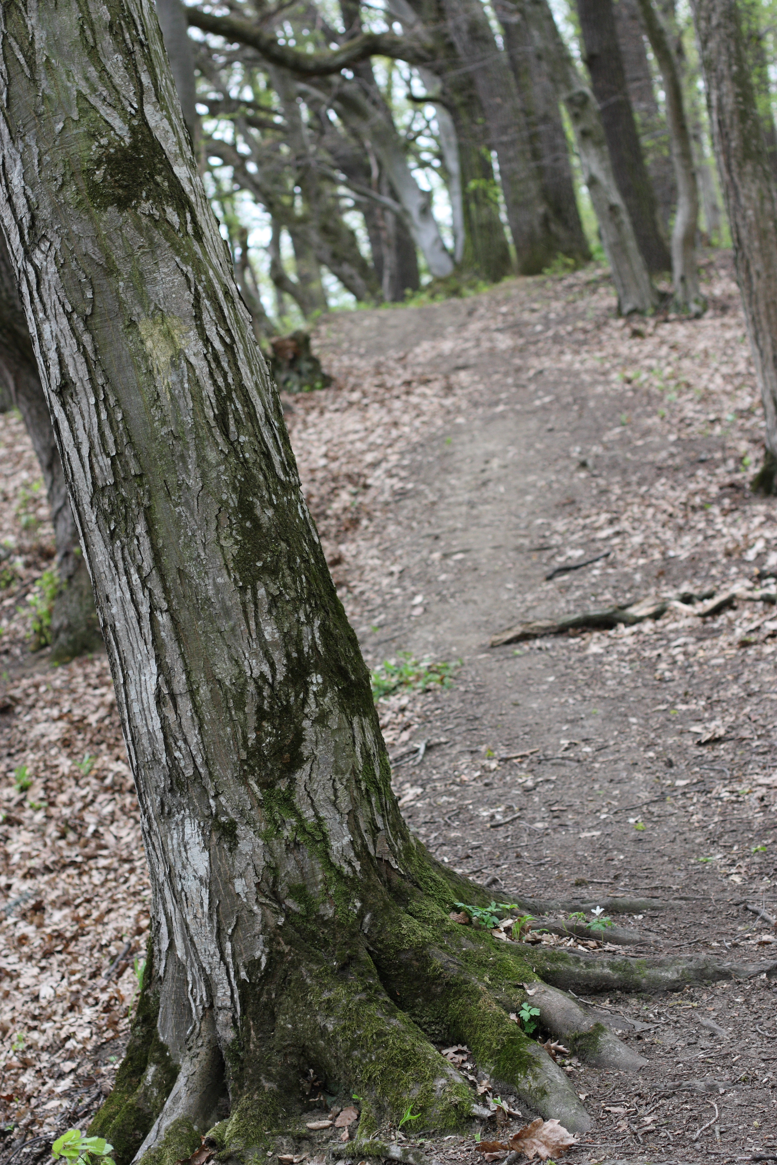 Breite Ancient Oak Tree Reserve, Sighisoara, Romania